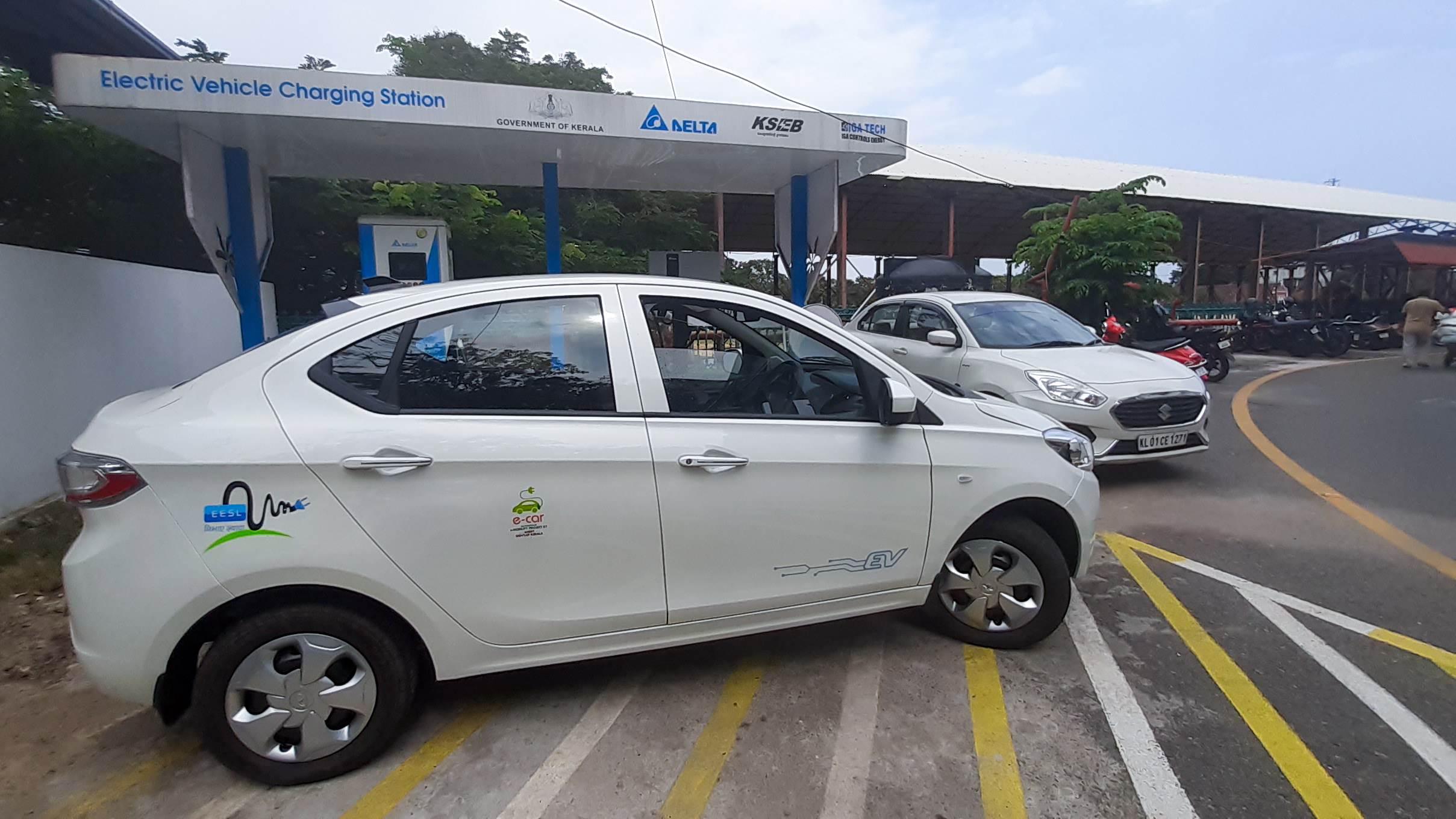 Electric Car